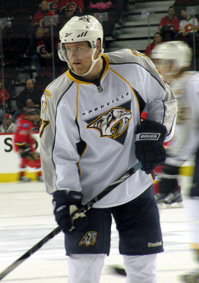 Nashville Predators forward Patric Hornqvist prior to a National Hockey League game against the Calgary Flames.